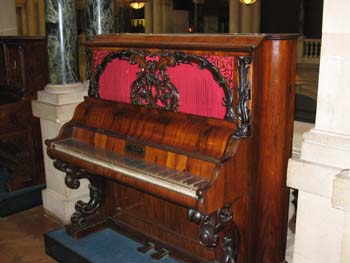 This Piano is only one form of it. It could be Grand: Baby-Grand Electric ETC Comment: This is a very unusual-looking piano, and certainly not representative of upright pianos in general.